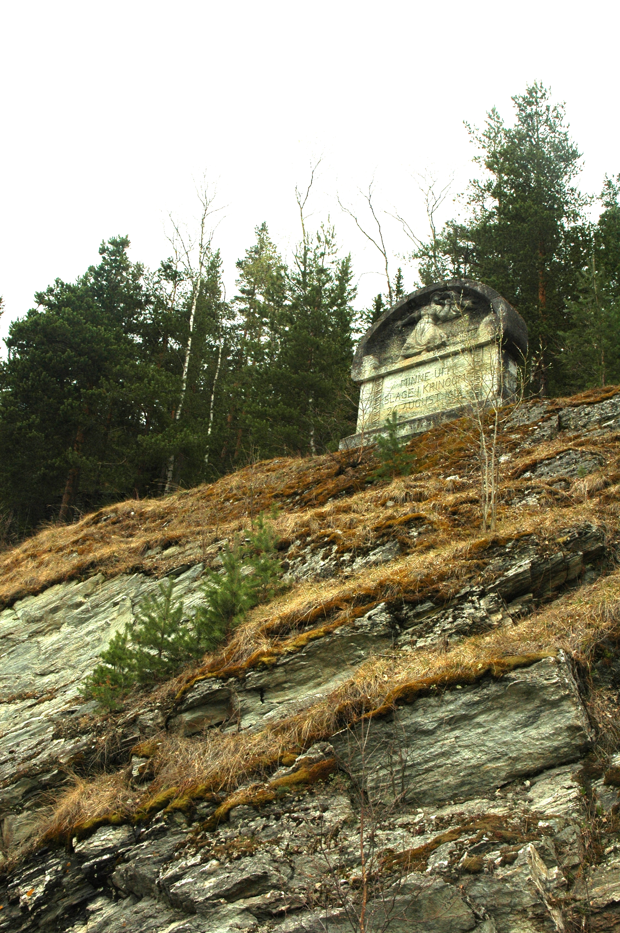 Monument over the Battle of Kringen, August 26, 1612